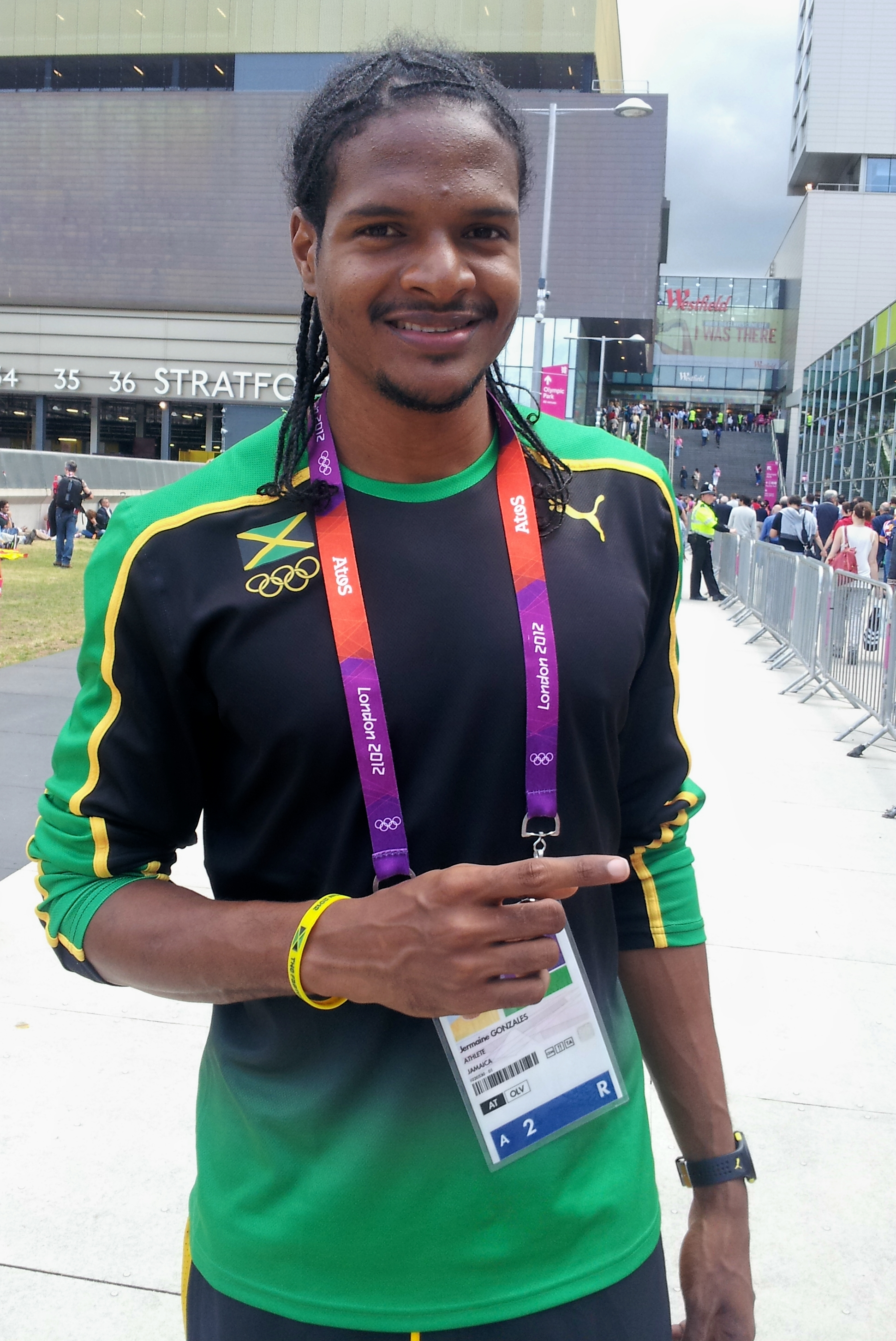 Jamaican 400m sprinter Jermaine Gonzales, taken at The London 2012 Summer Olympic Games